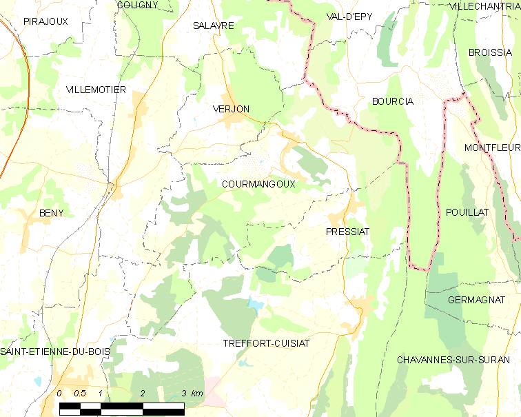 Map of French commune: Courmangoux Map commune FR insee code 01127.png